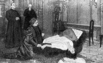 Representación de la obra de teatro El yermo de las almas, del dramaturgo español Ramón María del Valle-Inclán